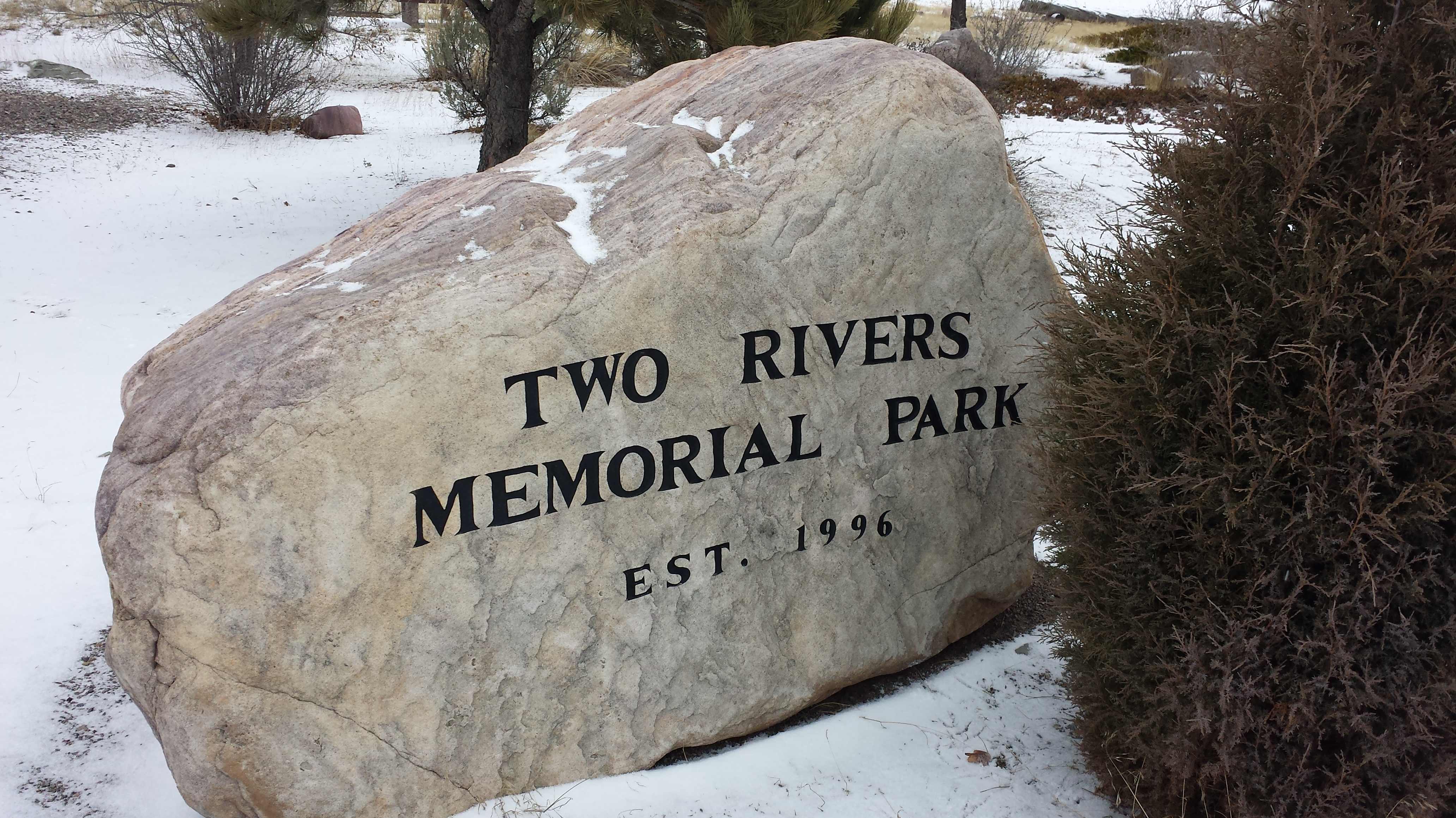 Inscribed stone sign for Two Rivers Memorial Park — a public park in Bonner-West Riverside, Missoula County, Montana.